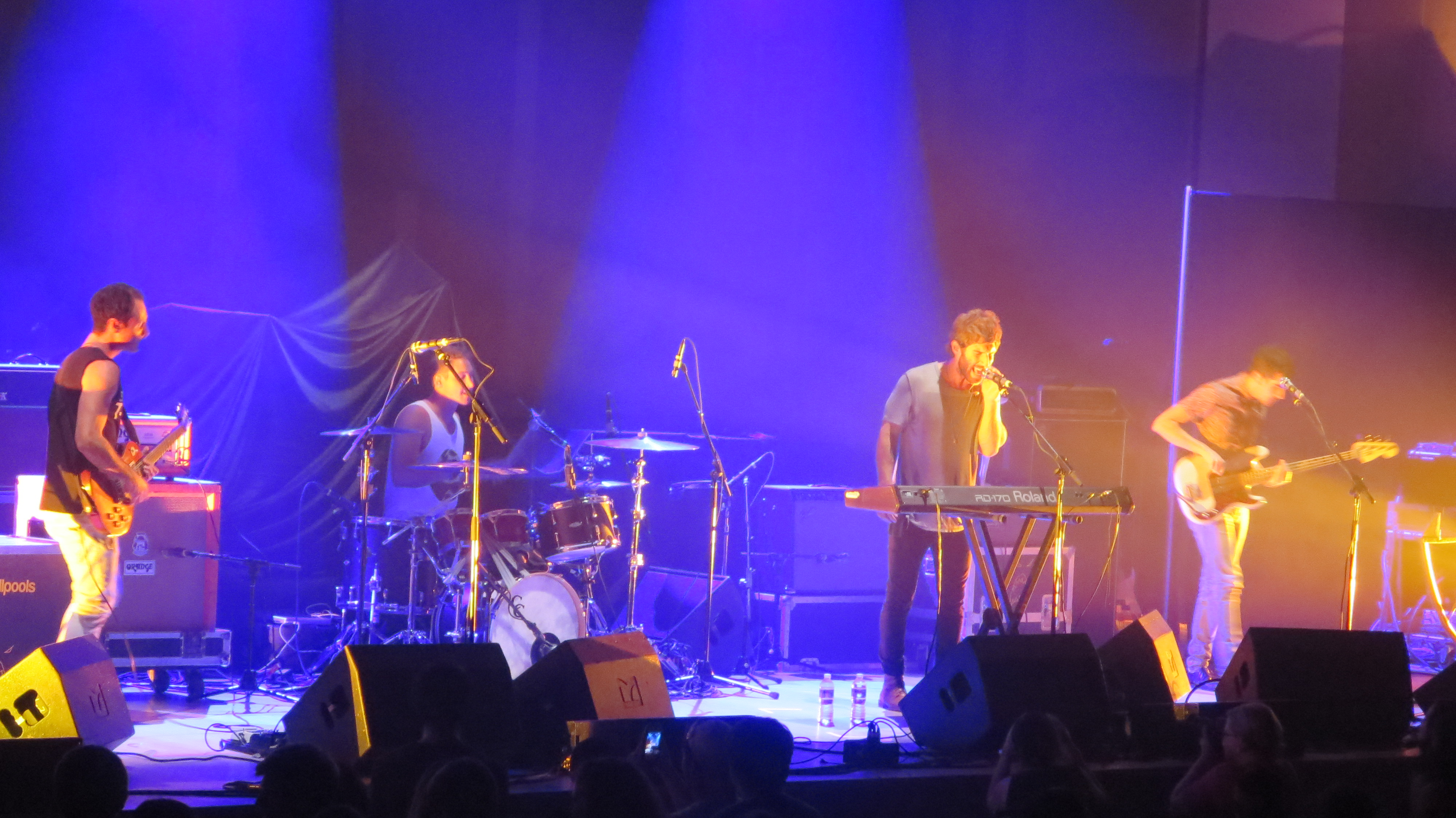 Smallpools at DAR Constitution Hall, October 4, 2013